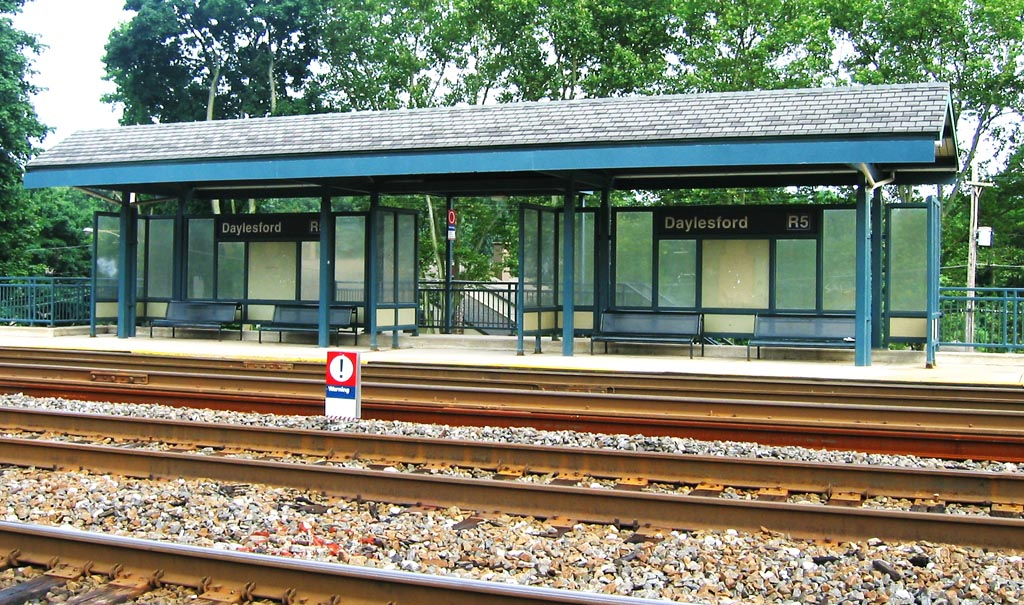 Photo of Daylesford train station in Daylesford, Pennsylvania.